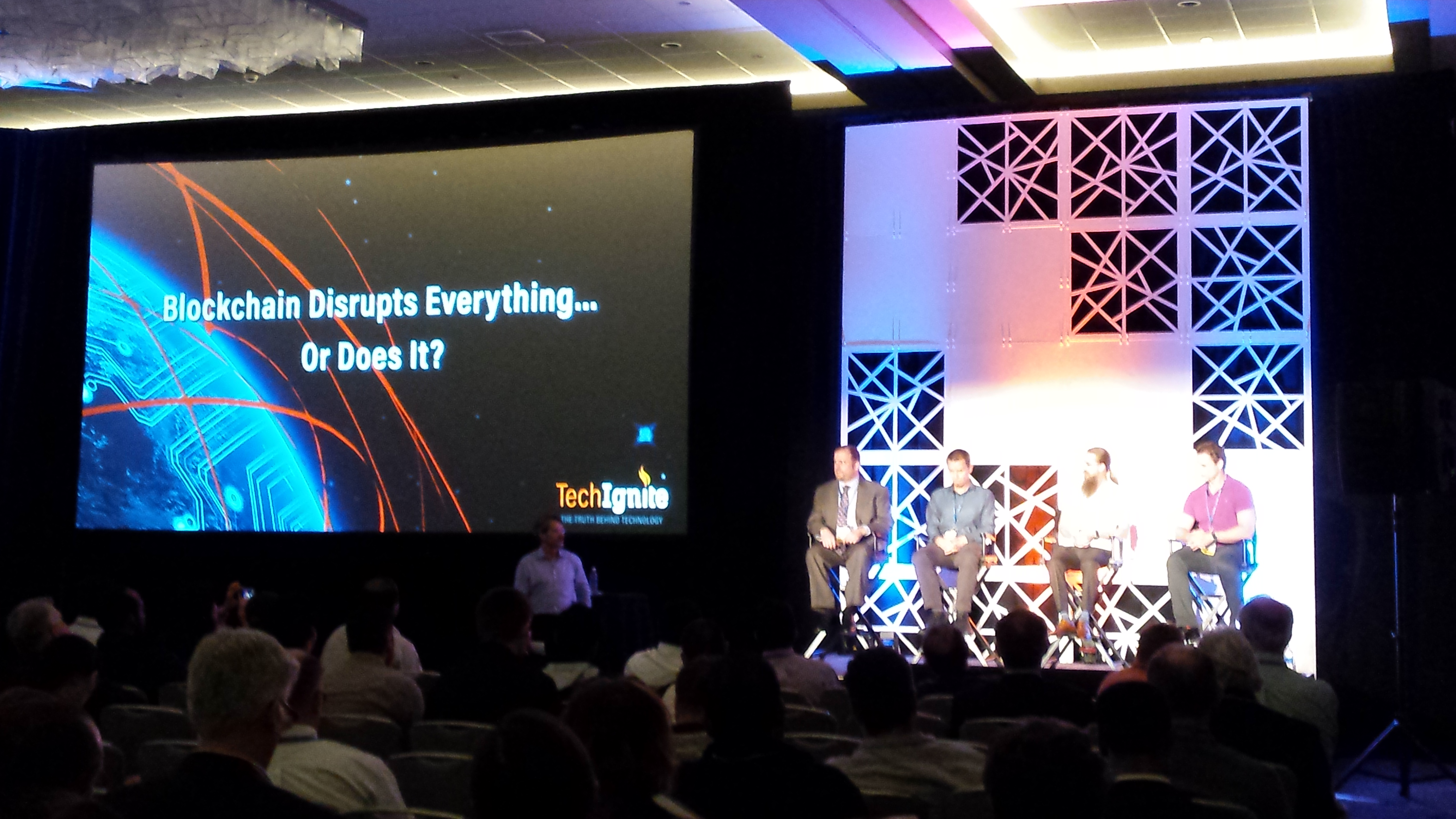 Consultant Josh Greenbaum moderates the "Blockchain Disrupts Everything...or Does It?" panel discussion at the first IEEE Computer Society TechIgnite conference. Panelists are (from left to right) Mitchell Parker, Bryan Smith, Tim Adams, and Nelson Patrecek.